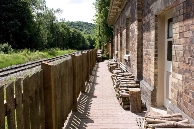 Coalbrookdale railway station Original description: Coalbrookdale Station This is where the platform would have been. The line now carries only coal for the Ironbridge Gorge Power Station. This is the other side of SJ6604 : Coalbrookdale Station